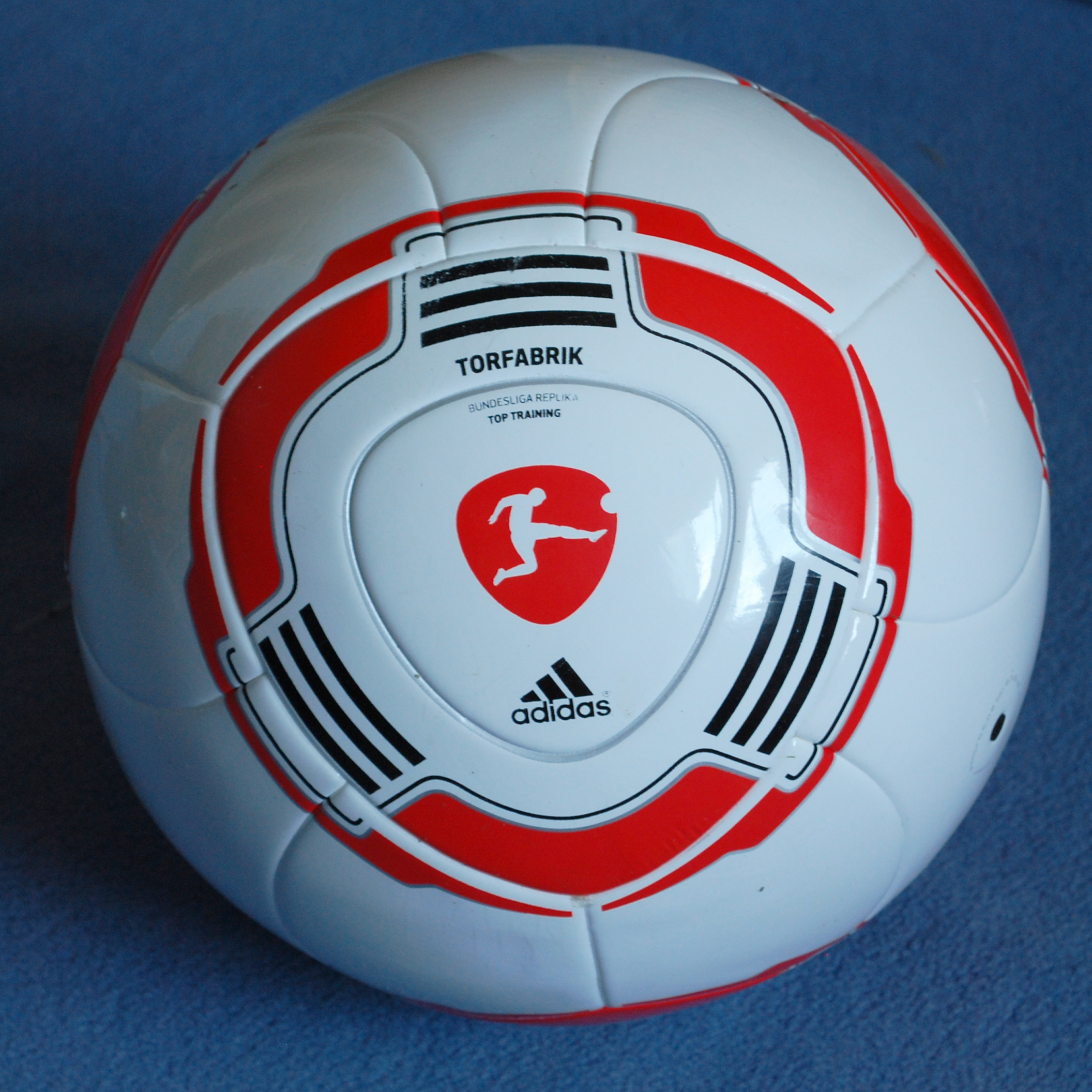 Replica of the Adidas football Torfabrik, official matchball for the Bundesliga 2010/11.